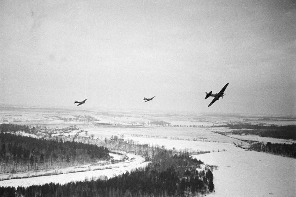 “Soviet Il-2 planes flying over Nazi positions near Moscow”. Soviet planes flying over Nazi positions near Moscow.